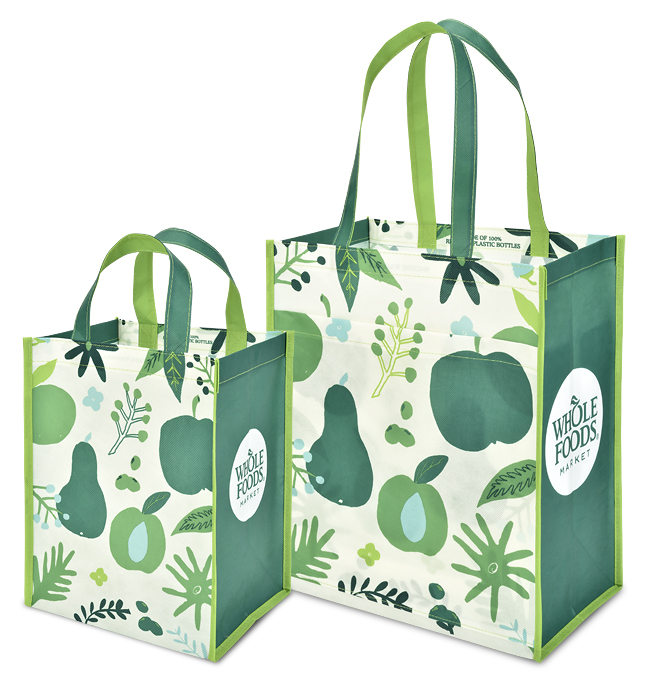 Reusable bags made by KeepCool USA and sold by Whole Foods Market in fall 2018. The bags are a style known as the Kangaroo Tote, with a Whole Foods Market design.